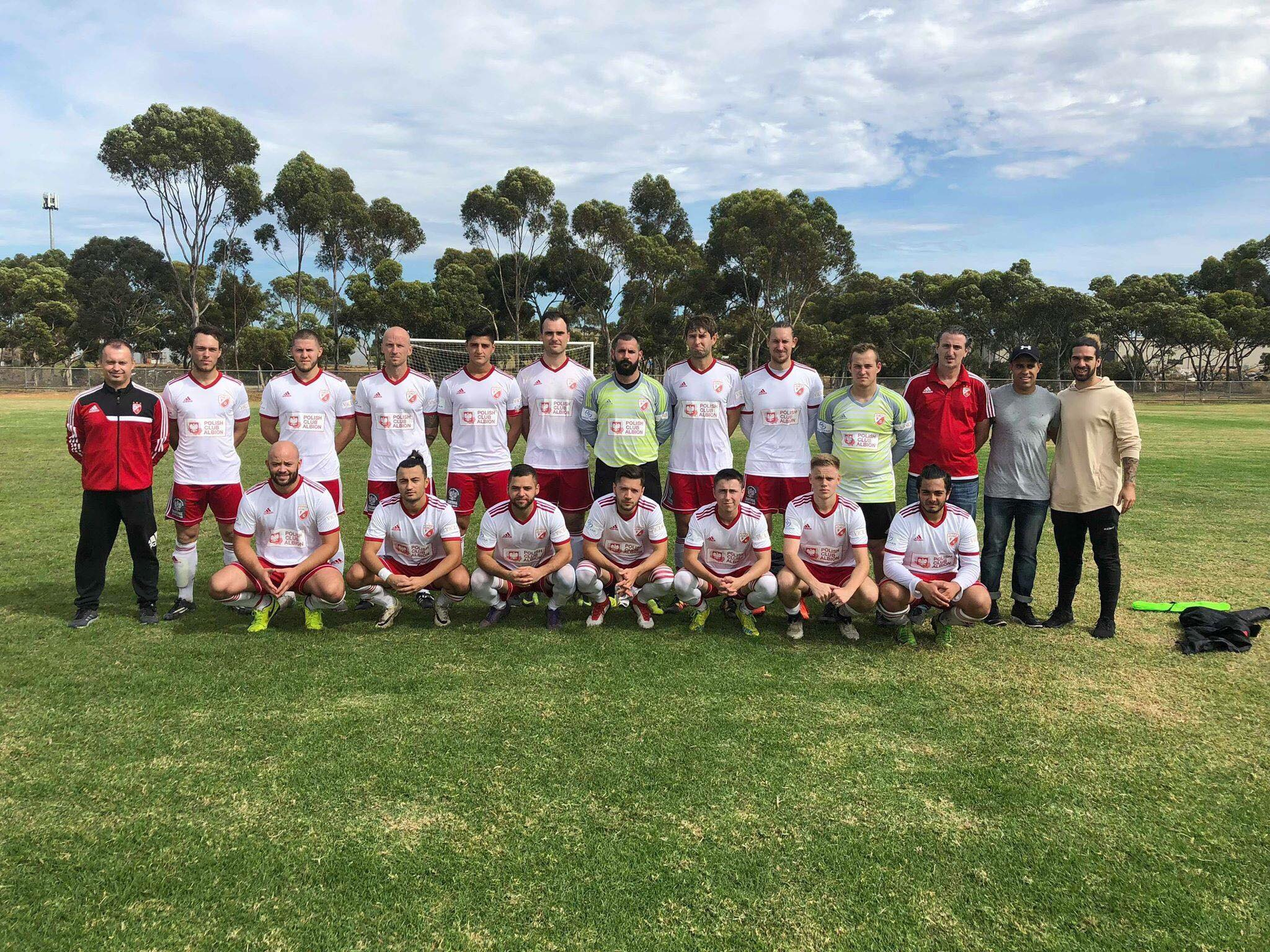 Western Eagles - Round 1 of the 2018 season, 24 March game against Golden Plains (3:0).